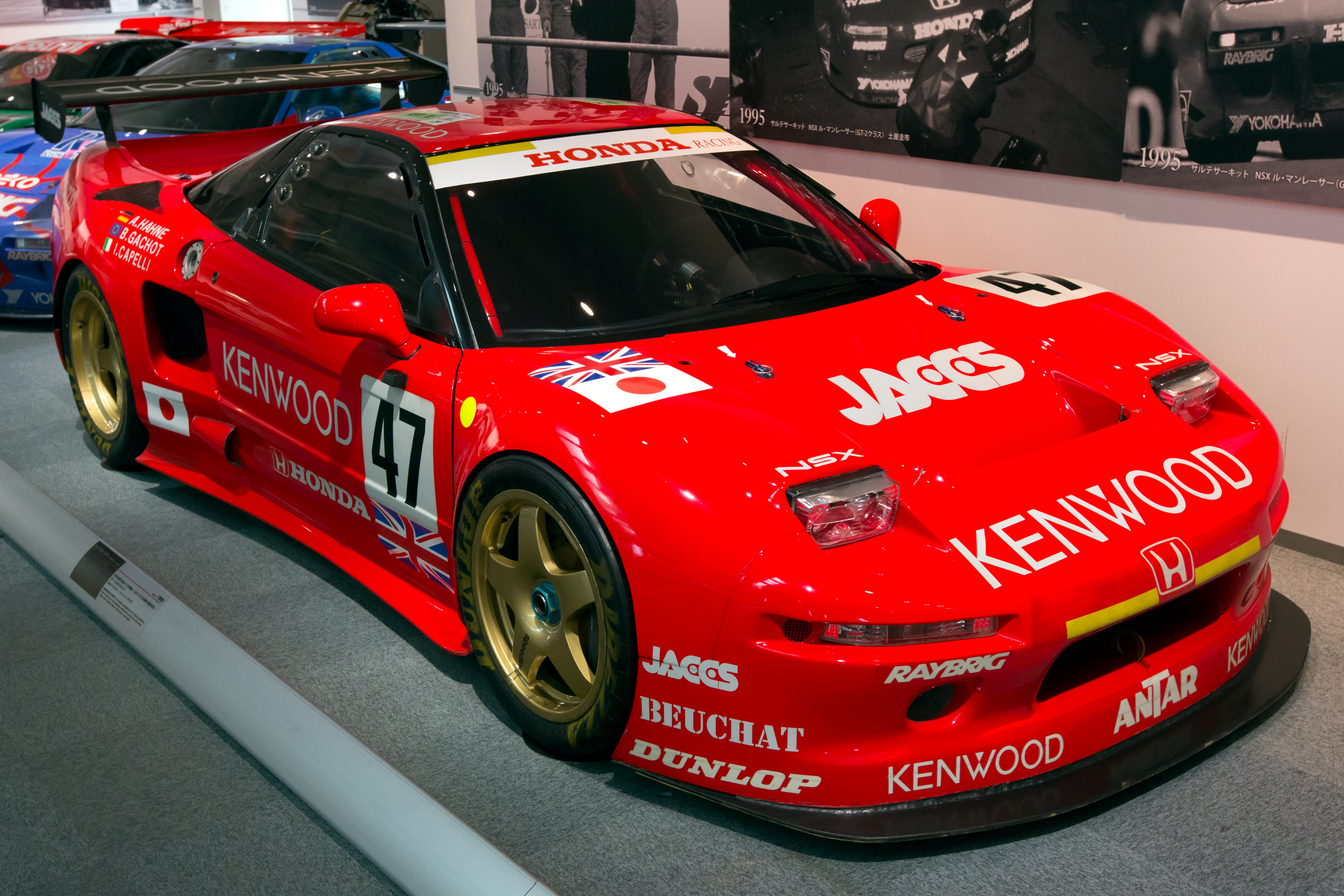 1995 Honda NSX Le Mans (GT1)